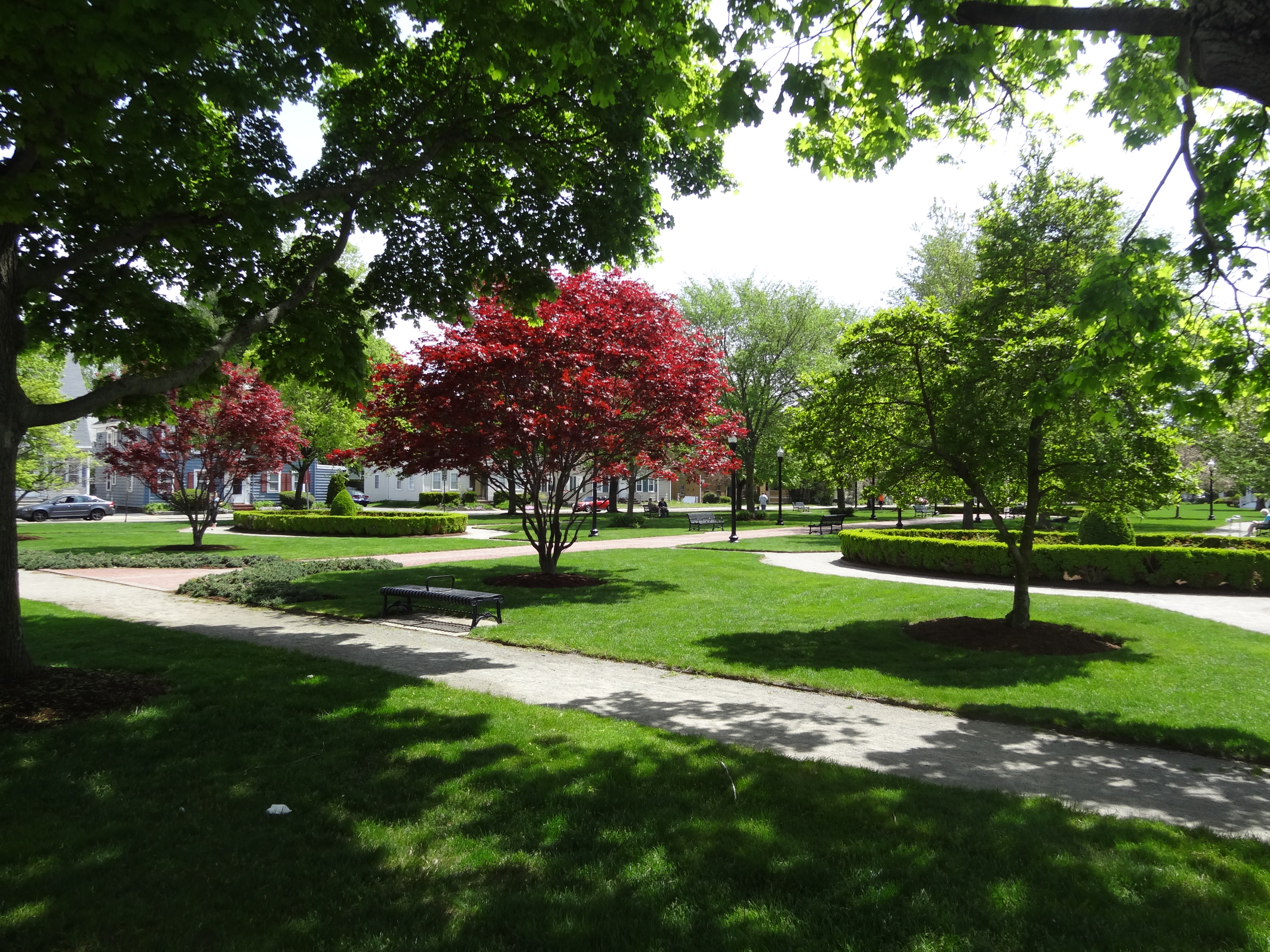 Beverly Common Beverly, Massachusetts